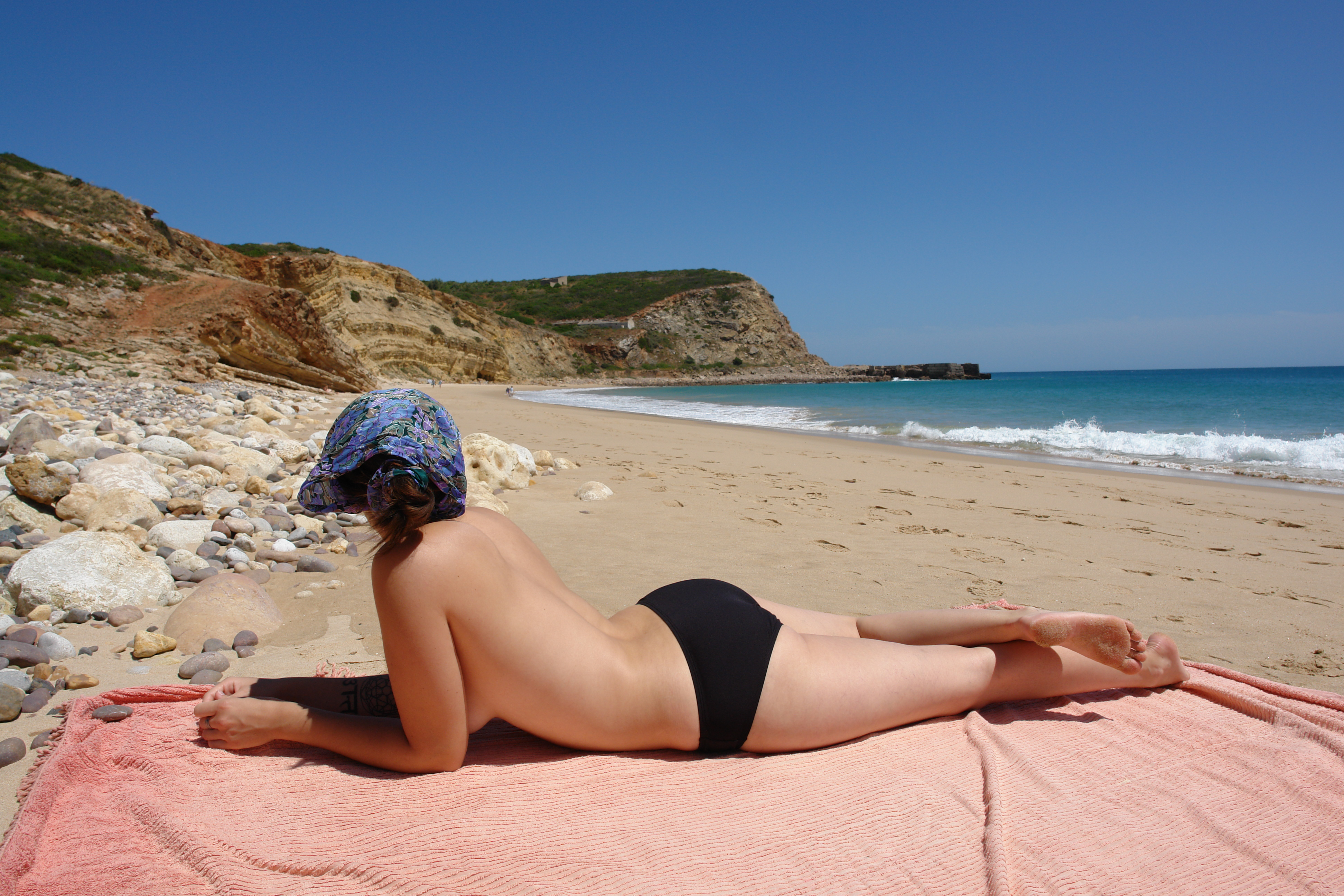 Merci looks up the nearly empty beach. This was the Cabana something beach West of Burgau; the water was freezing but the beach was clean and breezy and lovely sand.